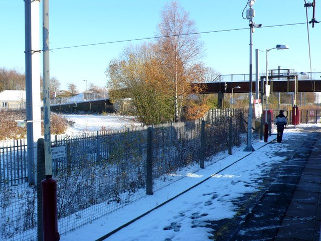 Shieldmuir Station, near to Craigneuk, North Lanarkshire, Great Britain. A lone passenger walks along the northern platform of the station having just got off a Glasgow Central to Lanark train.